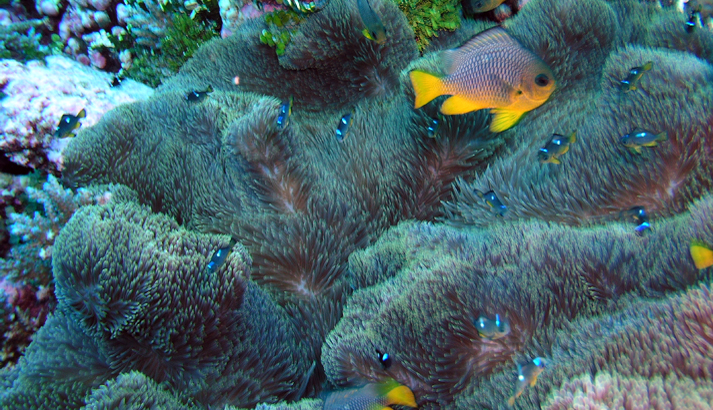 Stichodactyla mertensii y Dascyllus auripinnis en Kingman Reef